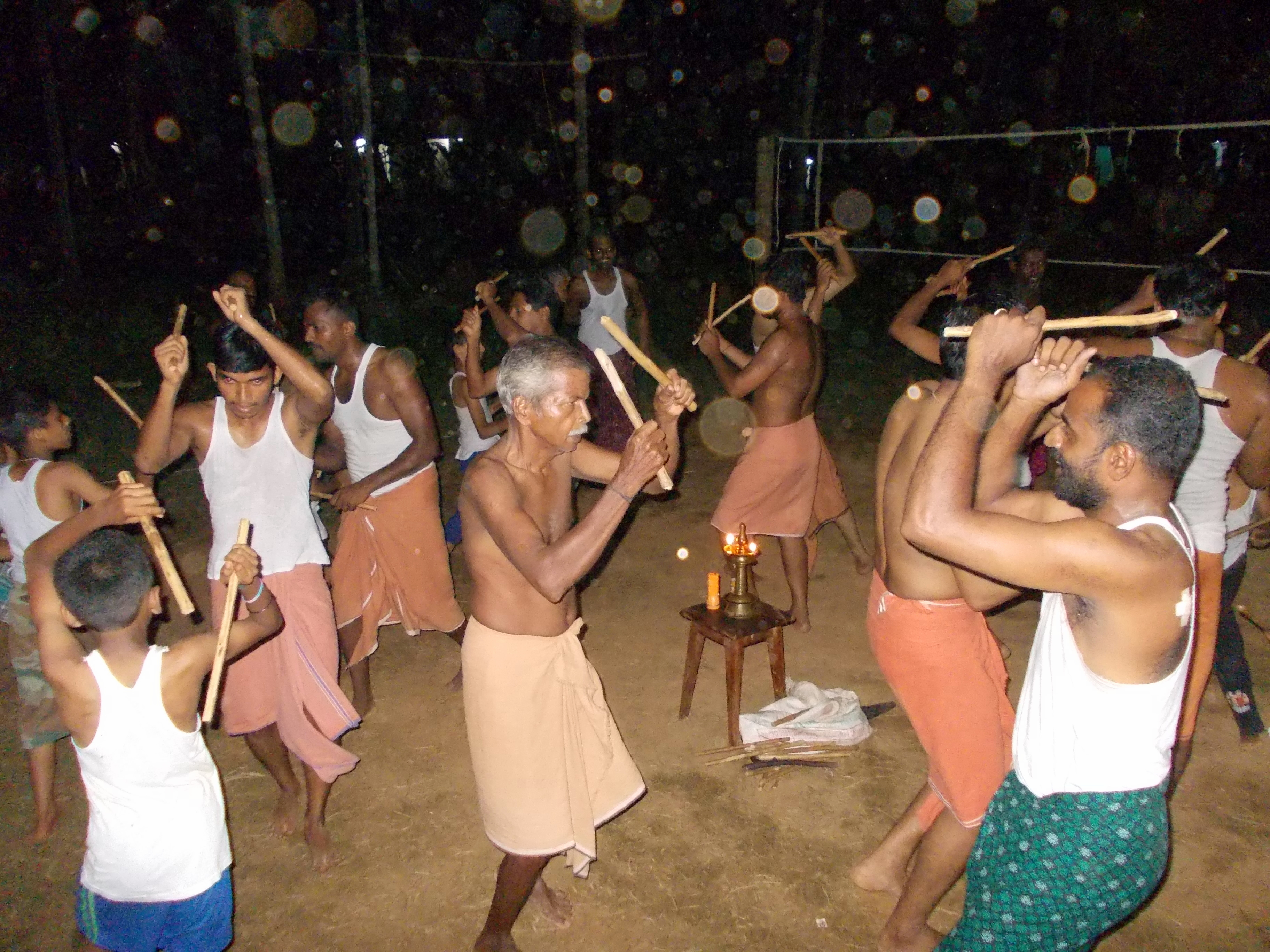 A folk art of north Malabar, Kerala called kolkkali